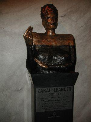 The worlds first bronzestatue of Zarah Leander, placed in Karlstads Operahouse where Z L first entered a public scen.